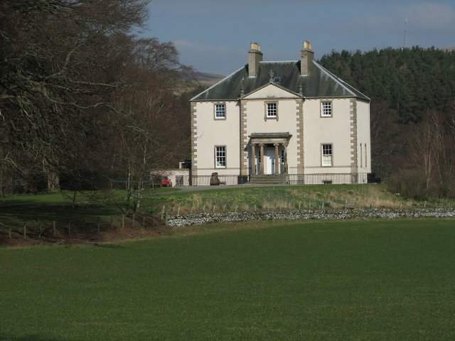 Barns Georgian Mansion by the River Tweed. Built for James Burnett in the 1770s, along with a stone stable block which stands close to the old tower.